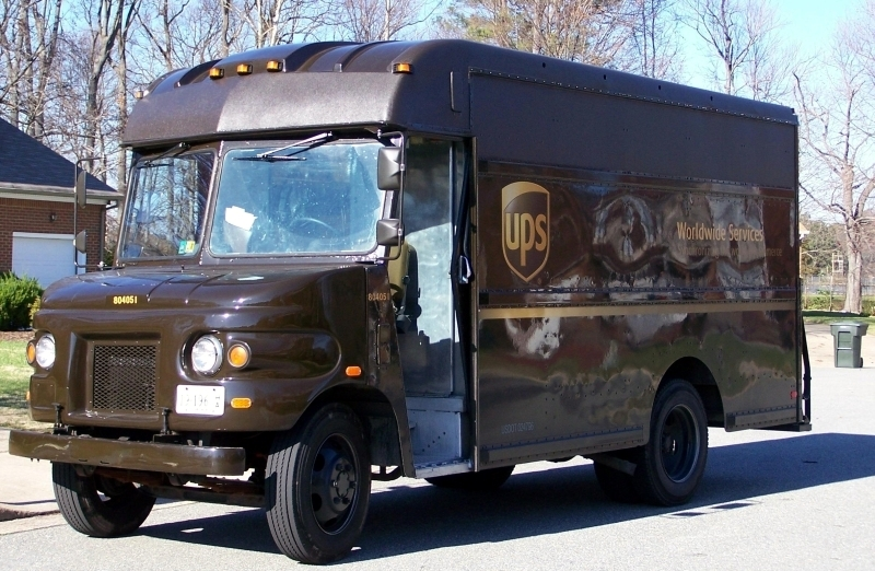 Photo by William J. Grimes This is a picture of a Model P800 manufactured specifically for UPS by Grumman Olson. Licensing This image is watermarked to give credit to the photographer!